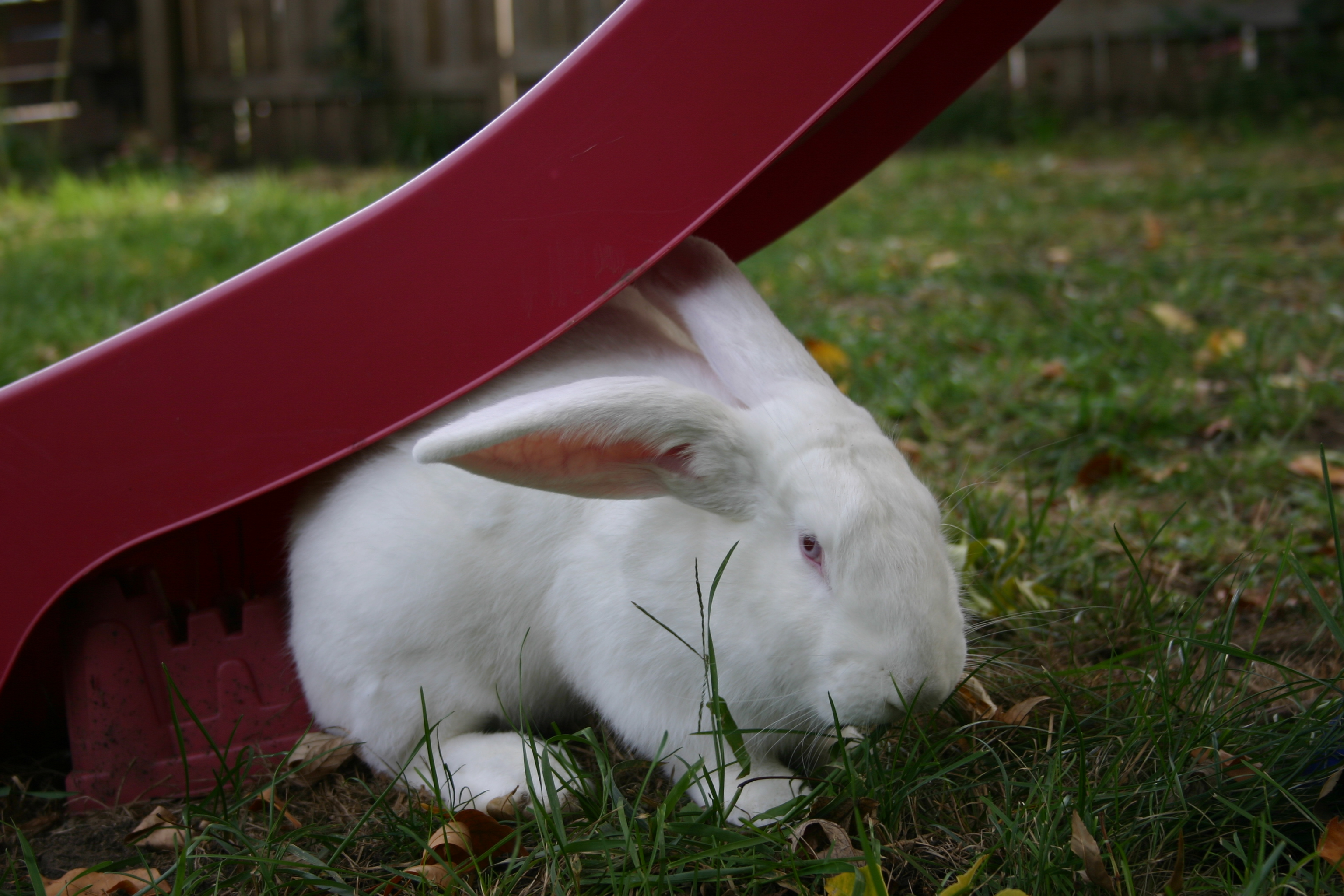 wallace!!!!!!! Flemish Giant